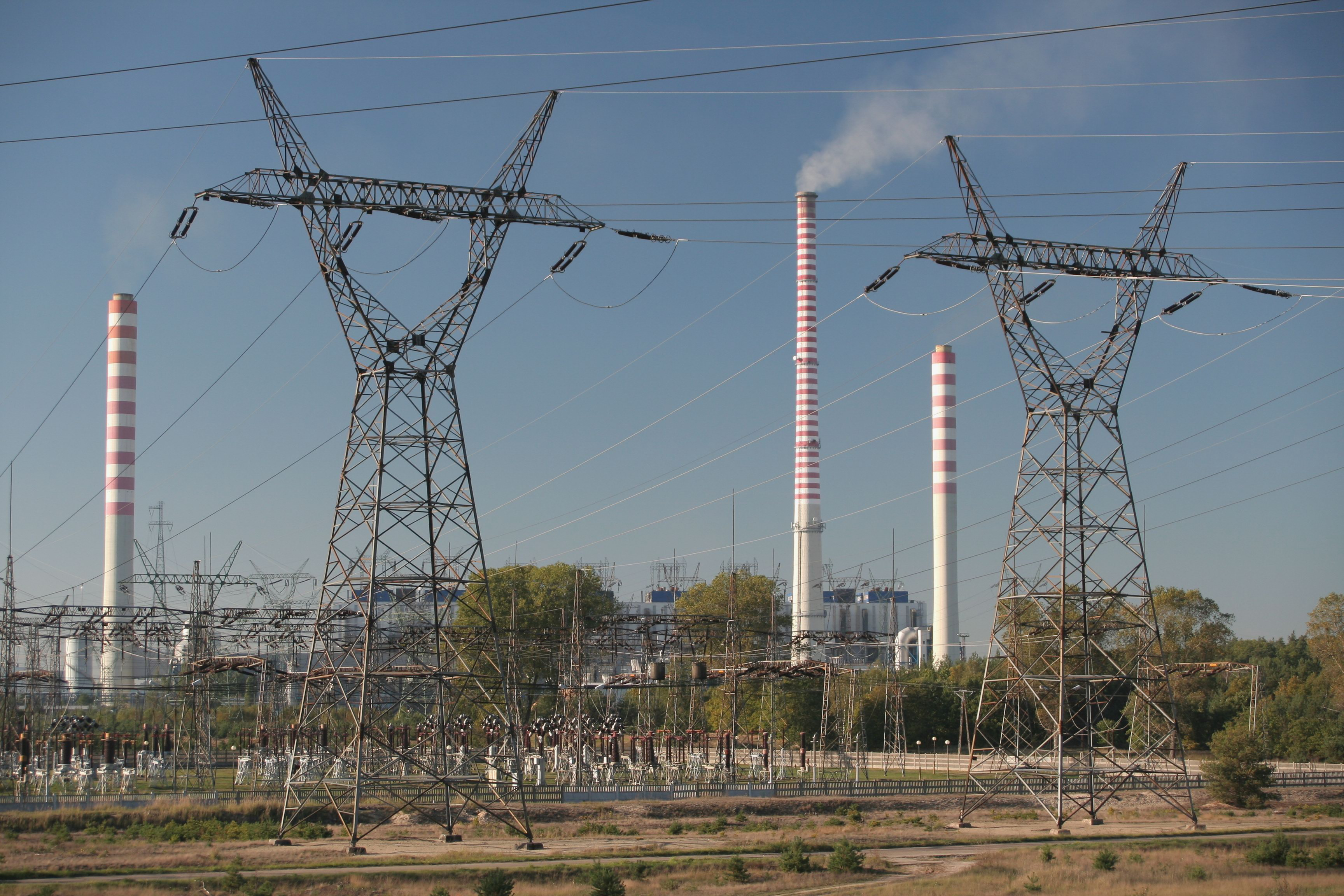 Krajnik substation in front of Dolna Odra Power Plant, Poland